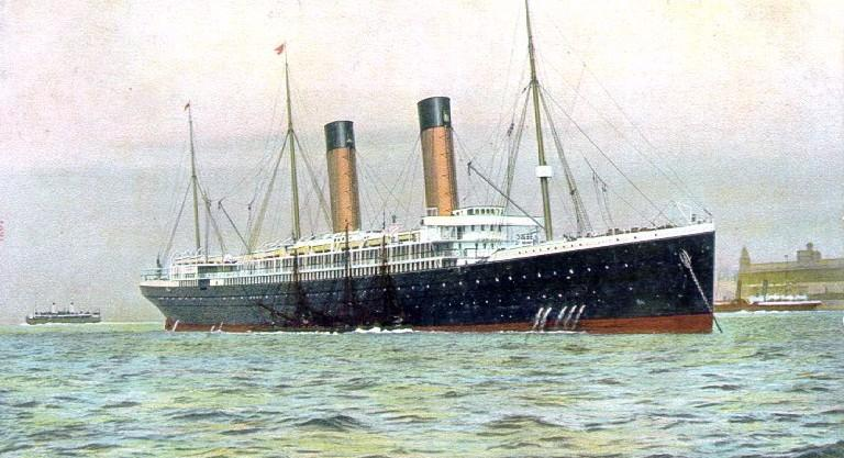 Colorful image of RMS Oceanic